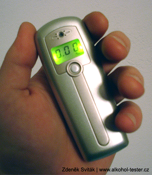 Alkohol tester Al2500